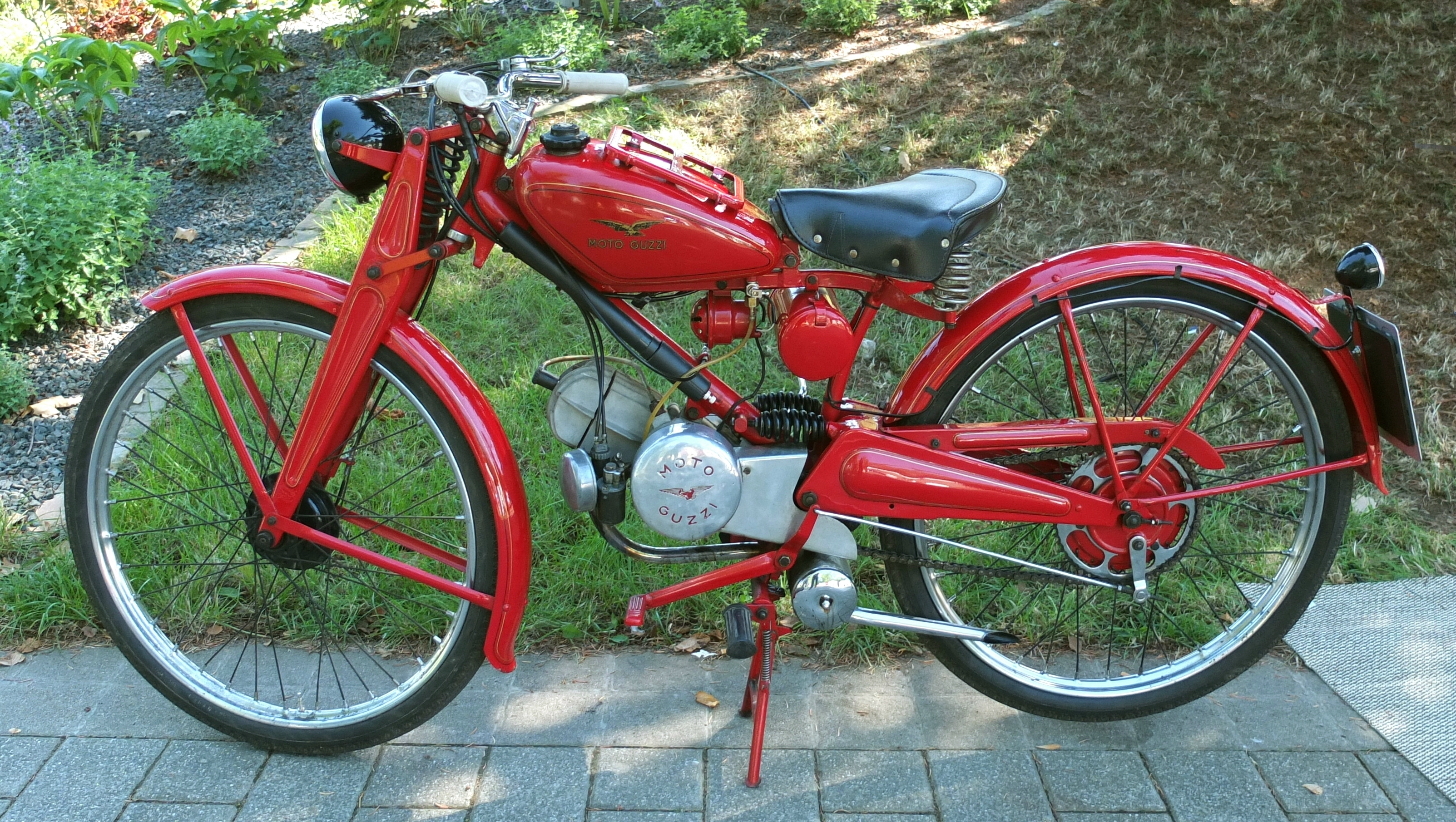 Moto Guzzi Cardellino (1957), 73 cm³, seen at the Concours d'Elégance, Mondorf-les-Bains, Luxembourg